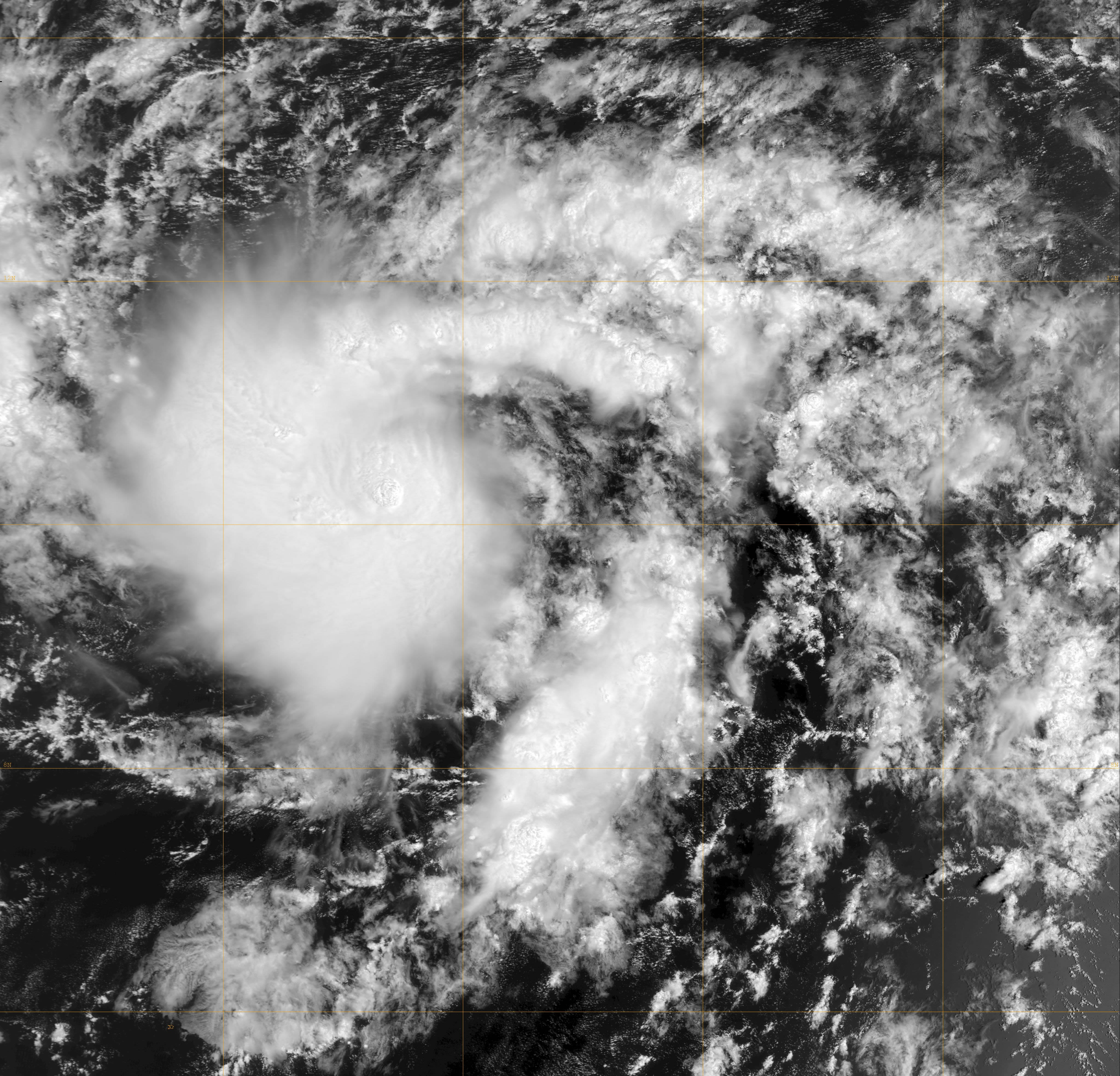 2006's Tropical Depression 02C at peak strength. Cropped from original image